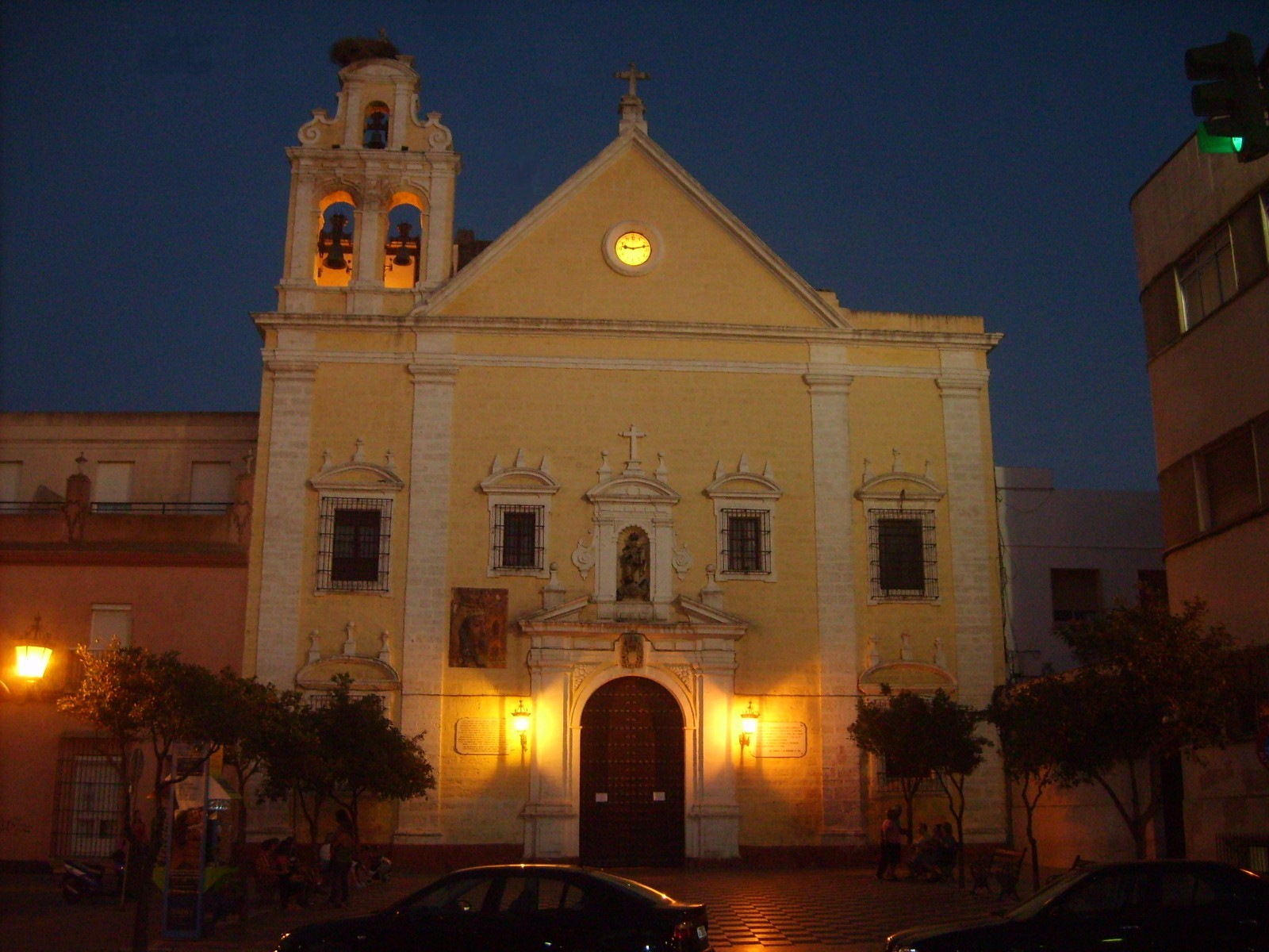 El Carmen Church's façade, in San Fernando, Cadiz, Andalusia, Spain.